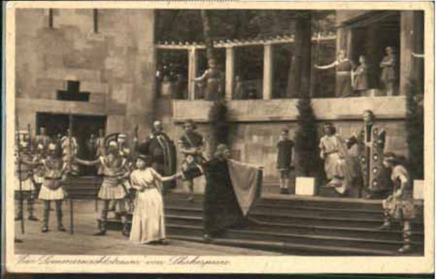 Landesheimatspiele der Provinz Westfalen Witten-Hohenstein 1931: Ein Sommernachtstraum